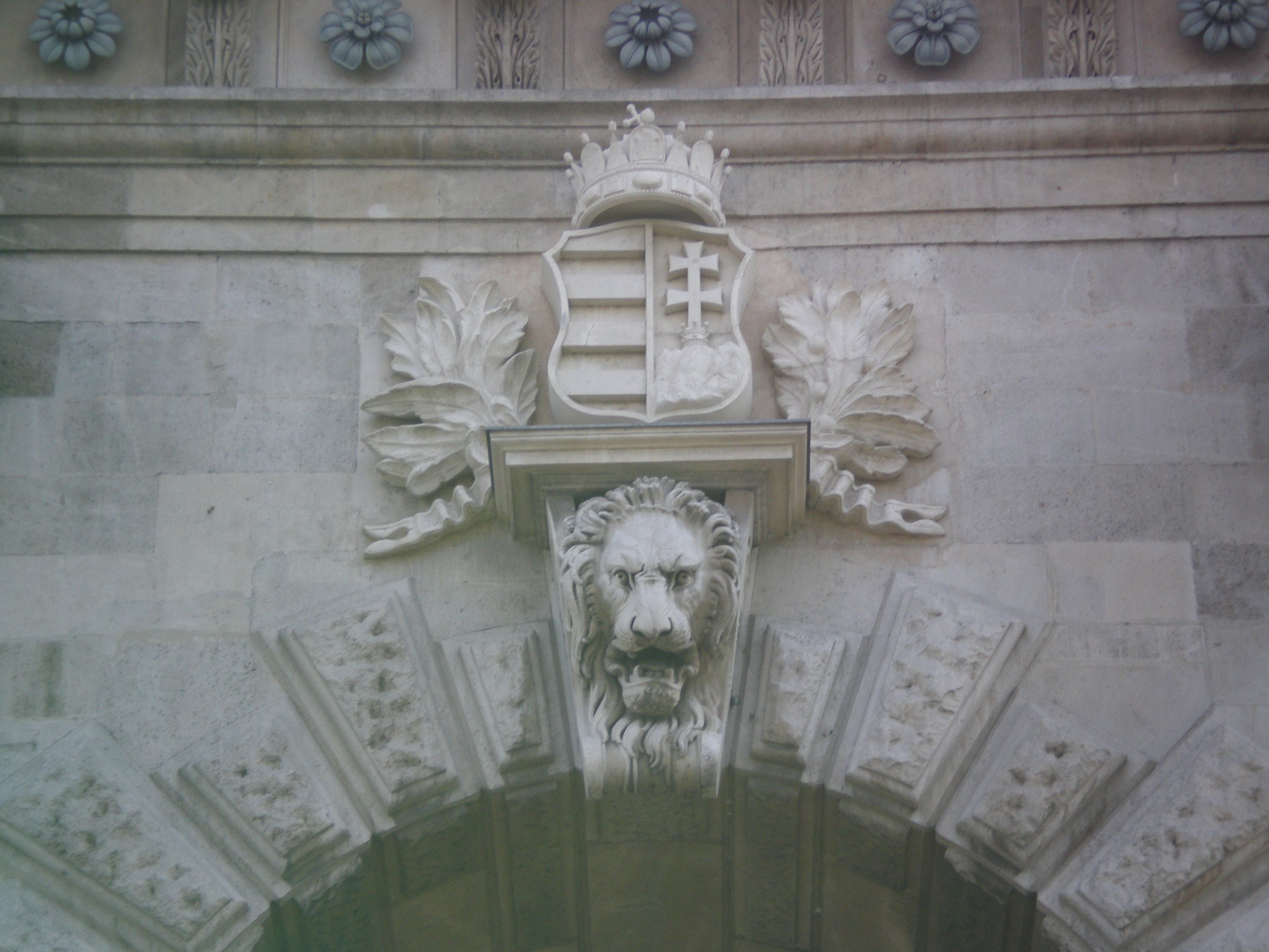 Detail of Széchenyi lánchíd (Chain Bridge), Budapest, featuring the Hungarian coat of arms.